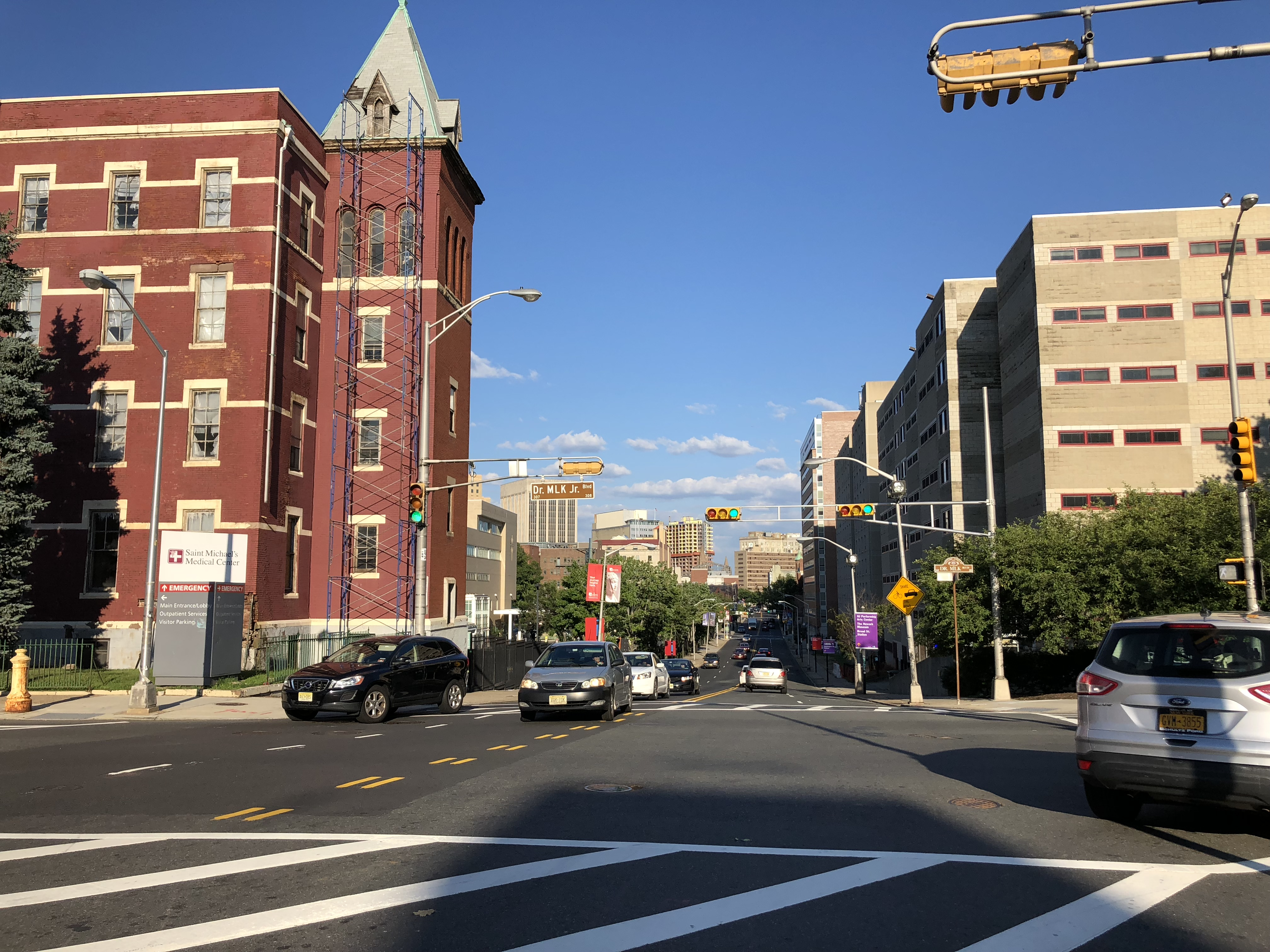 View east along Essex County Route 508 (Central Avenue) at Dr. Martin Luther King, Junior Boulevard in Newark, Essex County, New Jersey